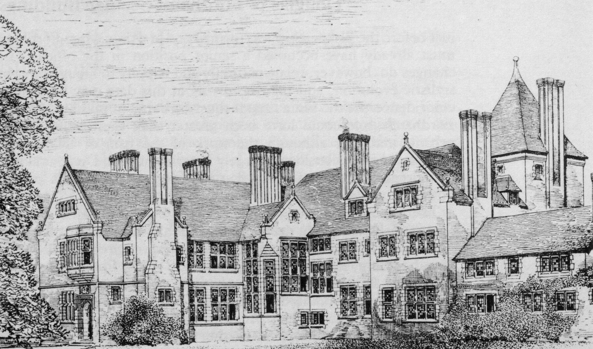 Scanned by the book by me. Exterior of the house showing the north wing on the right and the west wing on the right. Taken from British Architect, 24, 1885, p. 200